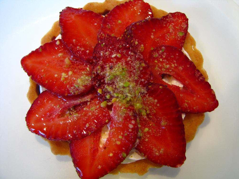 The strawberry tart from Sin, Hotel Marine Plaza in Mumbai, India